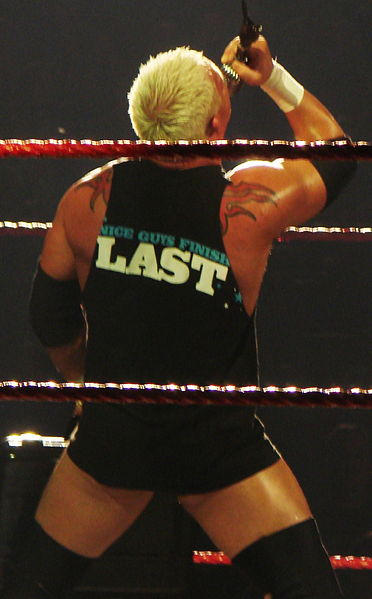 Mr. Kennedy's trademark ring announcement. Nashville Arena, Nashville, TN, April 30en:2007. Taken by me.